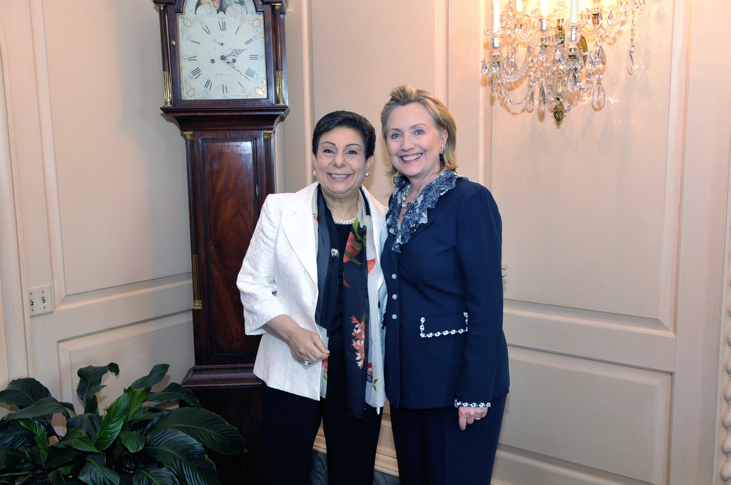 U.S. Secretary of State Hillary Rodham Clinton poses for a photo with PLO Executive Committee Member Hanan Ashrawi at the U.S. Department of State in Washington, D.C., on July 8, 2010. [State Department photo/ Public Domain]